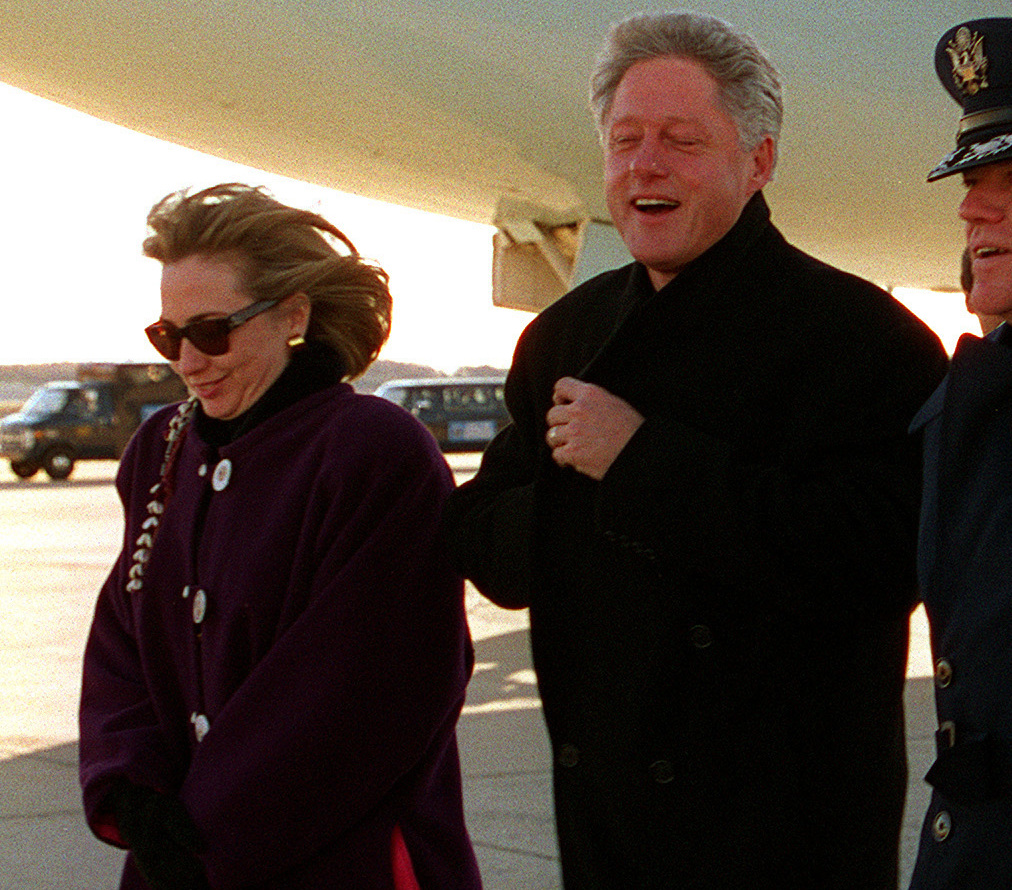 President William Jefferson Clinton and First Lady Hillary Clinton are escorted from Air Force One, in the background, to the Marine One helicopter by Brig. General Lichte and Colonel Skorupa. Andrews Air Force Base.